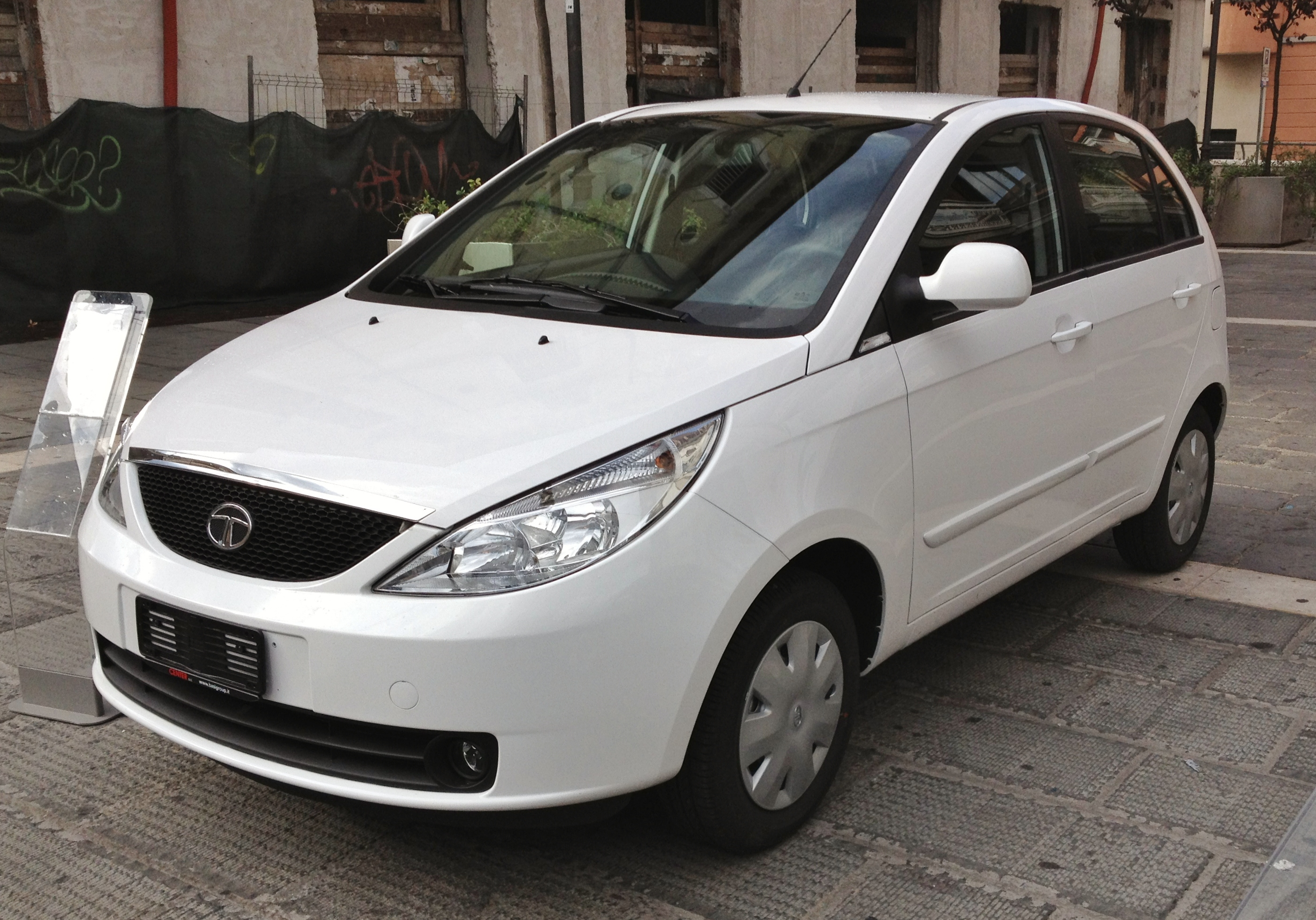 2012 Tata Indica Safire front